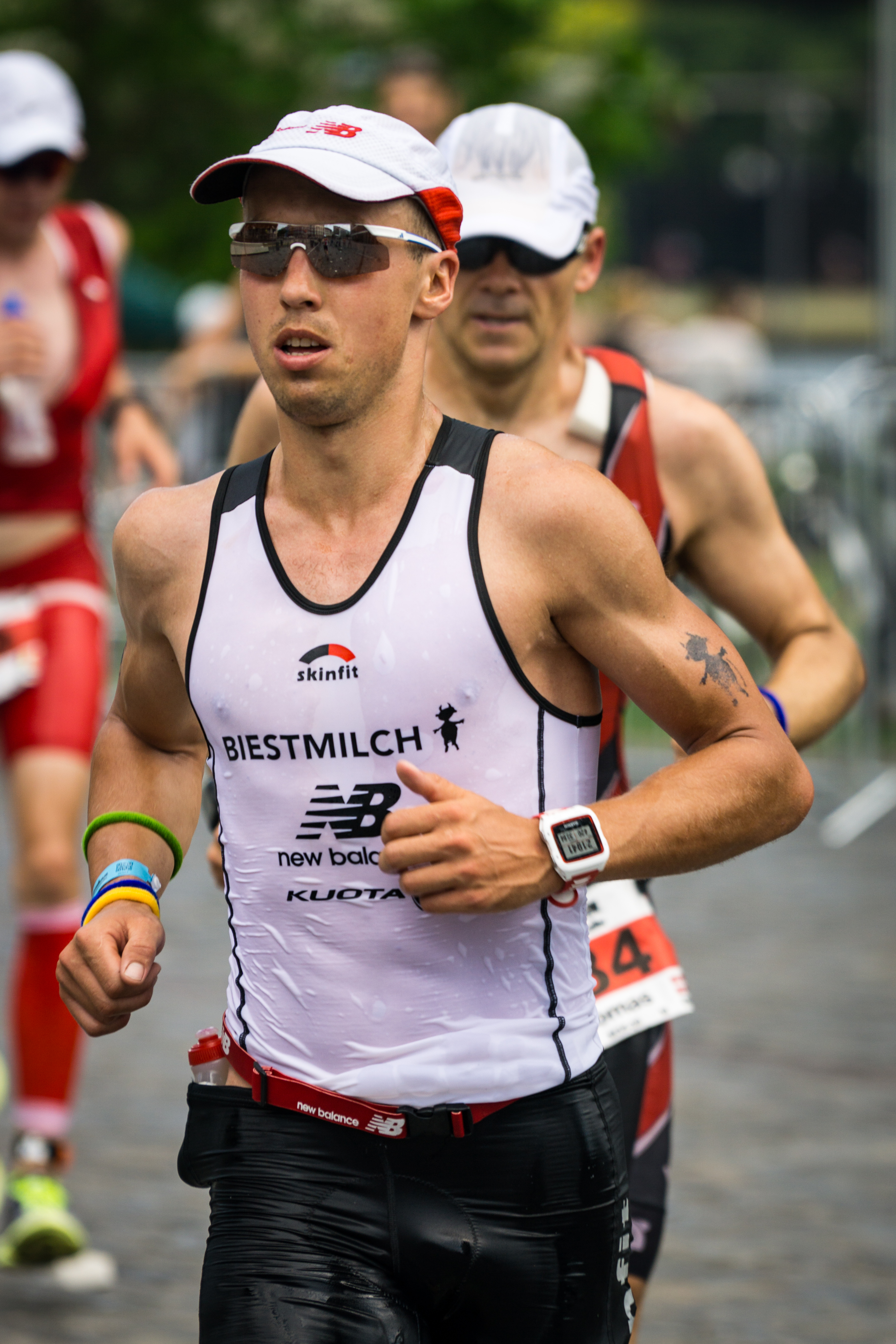 Andreas Böcherer at the 2015 Ironman European Championship in Frankfurt am Main.